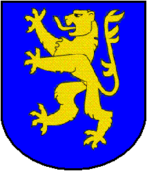 Coat of arms of Bürglen, Canton of Thurgau, SwitzerlandEsperanto: Blazono de Bürglen, Kantono Turgovio, Svislando